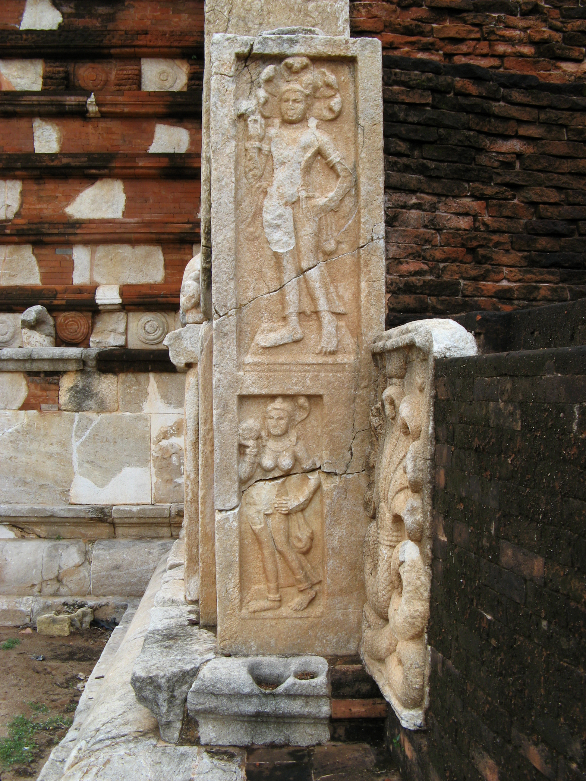 This guardian panel at the base of the stupa (right corner of the south vahalkada)shows a nagaraja (snake king) above his queen. The attenuated figures stand in identical poses; one hand rests on the cocked hip, and the other hand is raised holding an attribute.